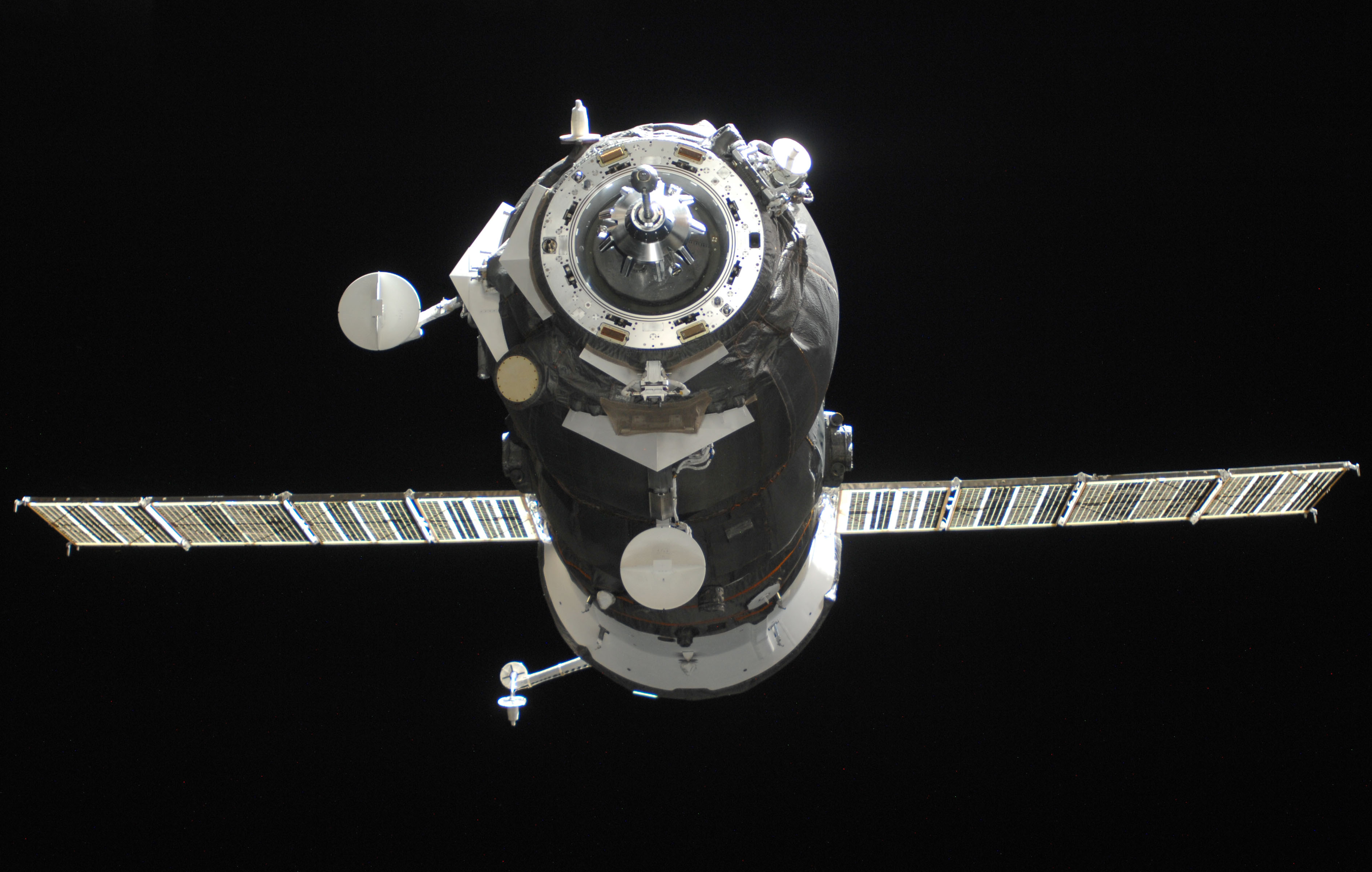 An unpiloted ISS Progress resupply vehicle approaches the International Space Station, carrying 1,940 pounds of propellant, 110 pounds of oxygen and air, 926 pounds of water and 2,976 pounds of maintenance hardware, experiment equipment and resupply items for the Expedition 27/28 crew. Progress 42 docked to the station's Pirs docking compartment at 10:28 a.m. (EDT) on April 29, 2011.